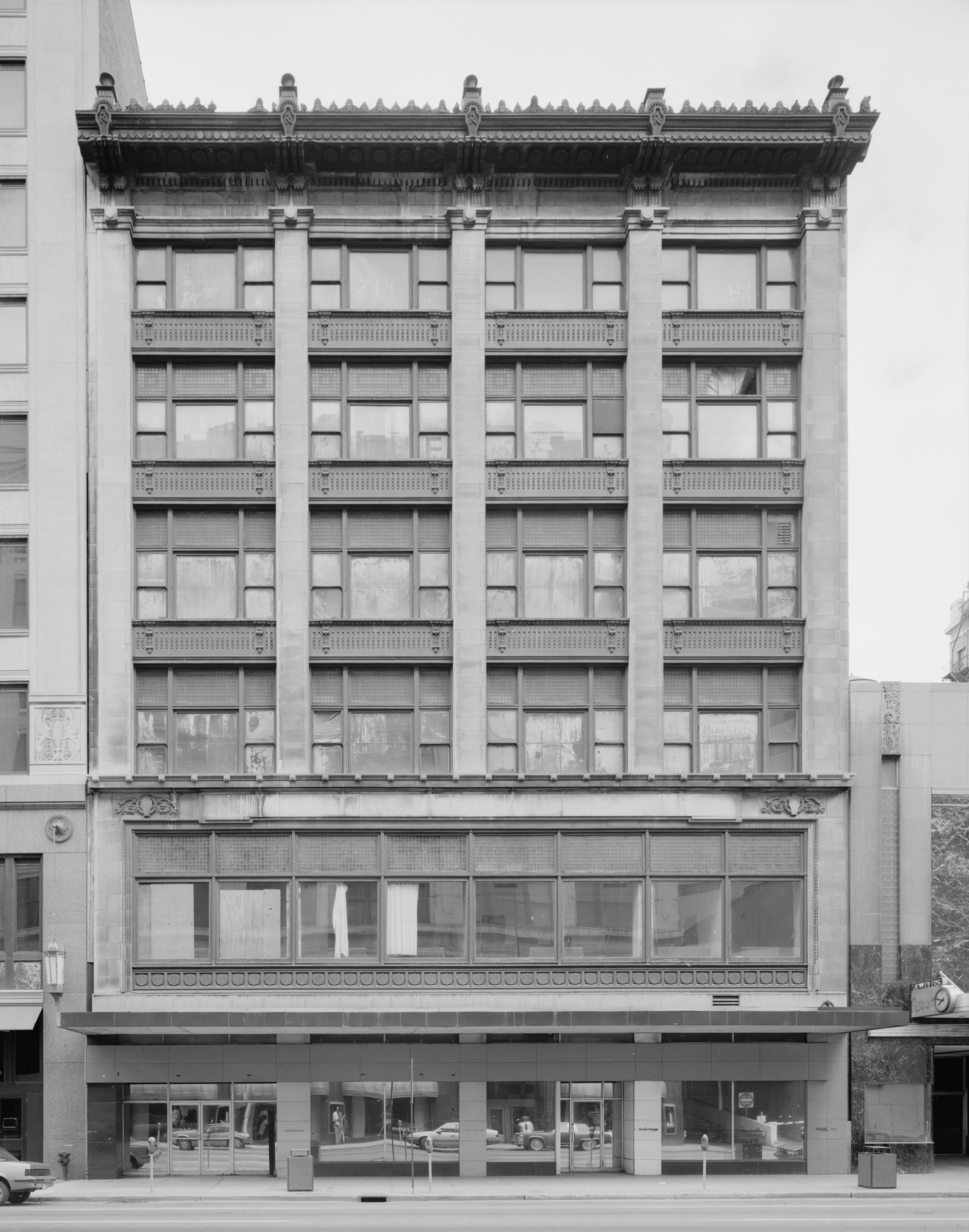 Front of Rink's Womens Apparel Store, located at 29 N. Illinois Street in Indianapolis, Indiana, United States. Built in 1910, it is listed on the National Register of Historic Places, and it is a contributing property to the Register-listed Washington Street-Monument Circle Historic District.